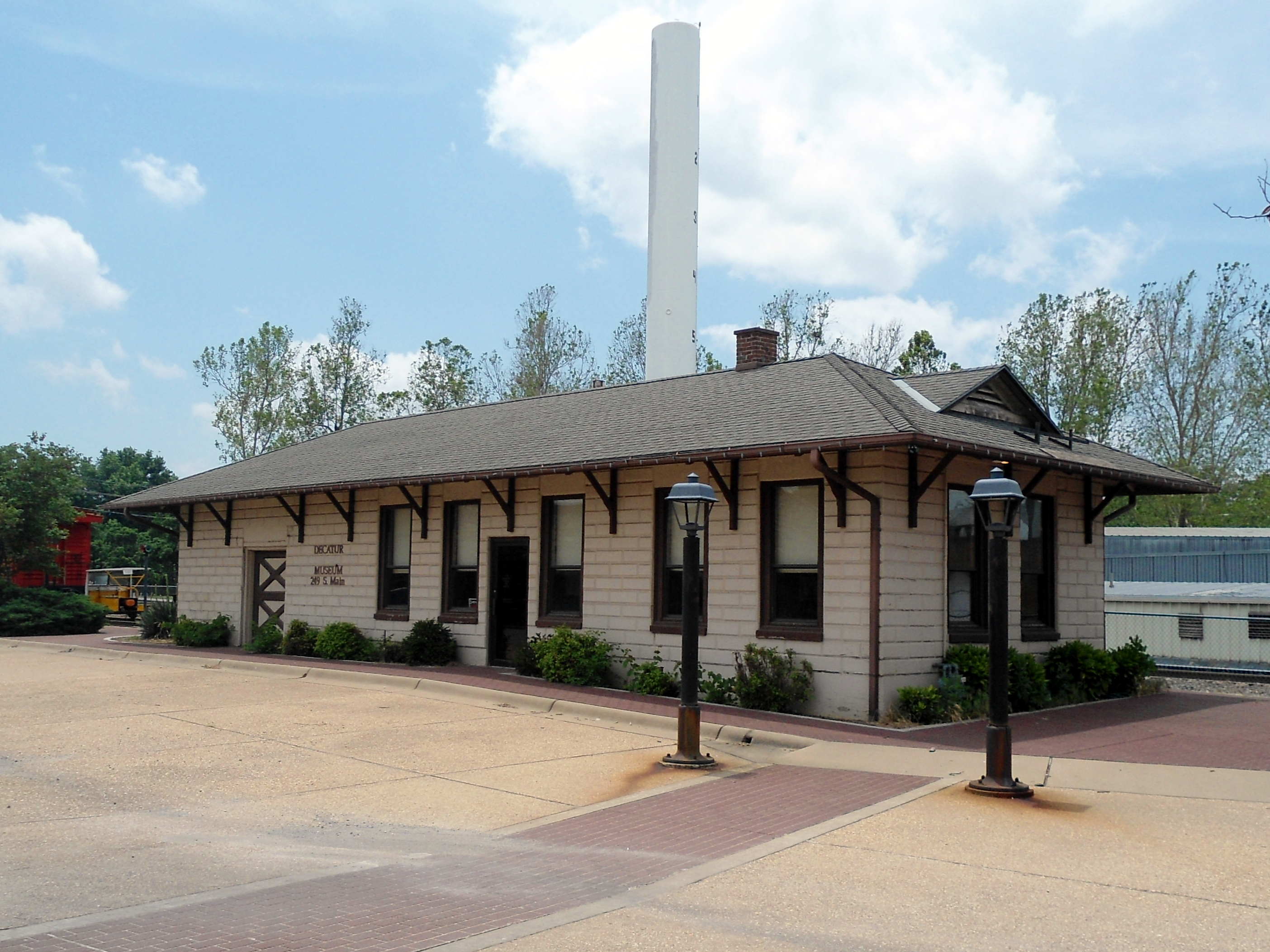 Historic train station in Decatur, AR